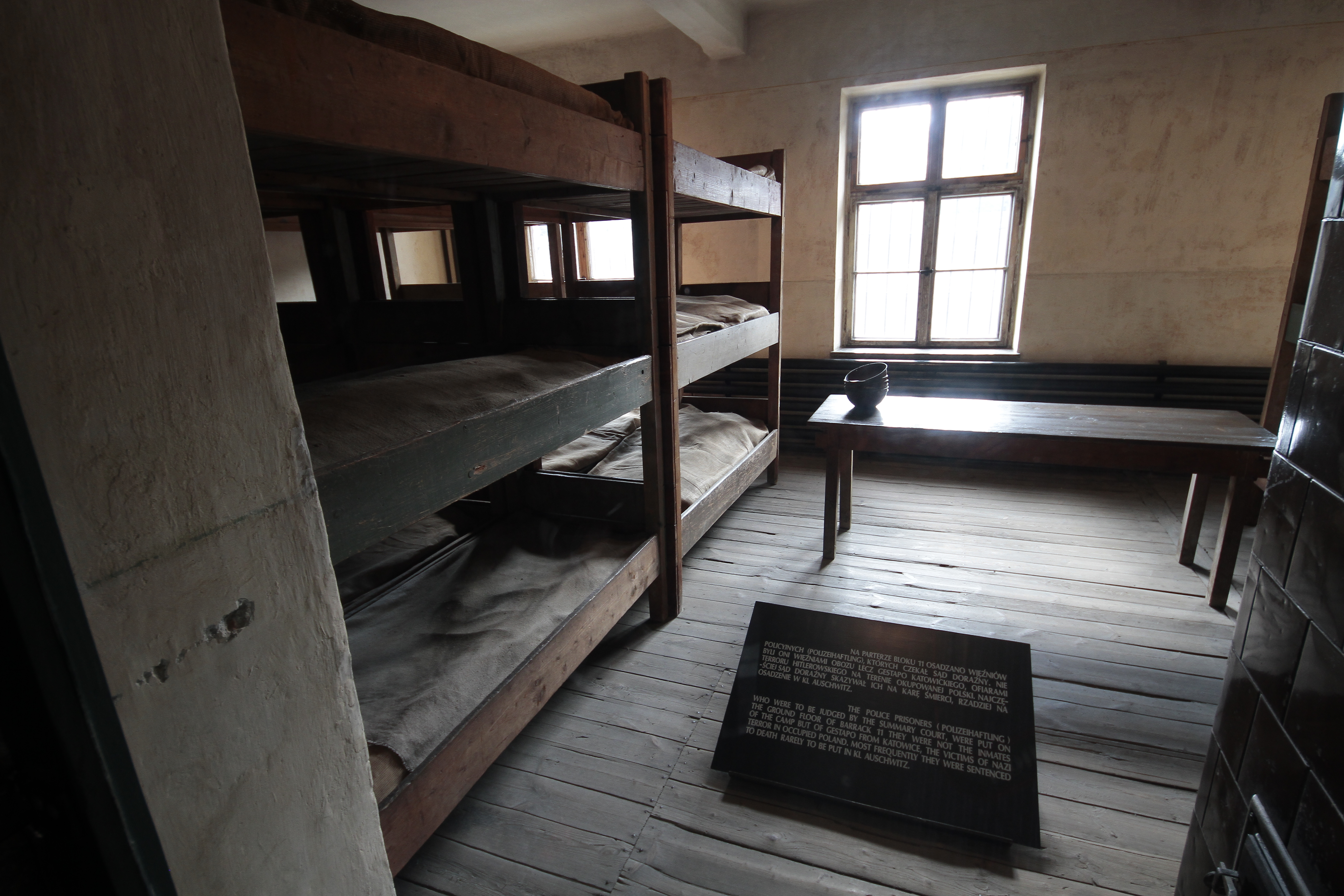 Police prisener's room in Auschwitz